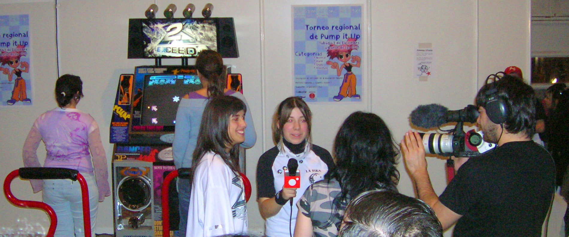 Reporters of Cuatro (Spanish private TV channel) interview two Pump it up players at IV Getxo Comic Con. The male who holds the camera and the girl in a camouflage top are the journalists, and the girl in white are the interviewed dancers. The logo of Cuatro television, with its white circle, is on the mic hold by the girl in black and white